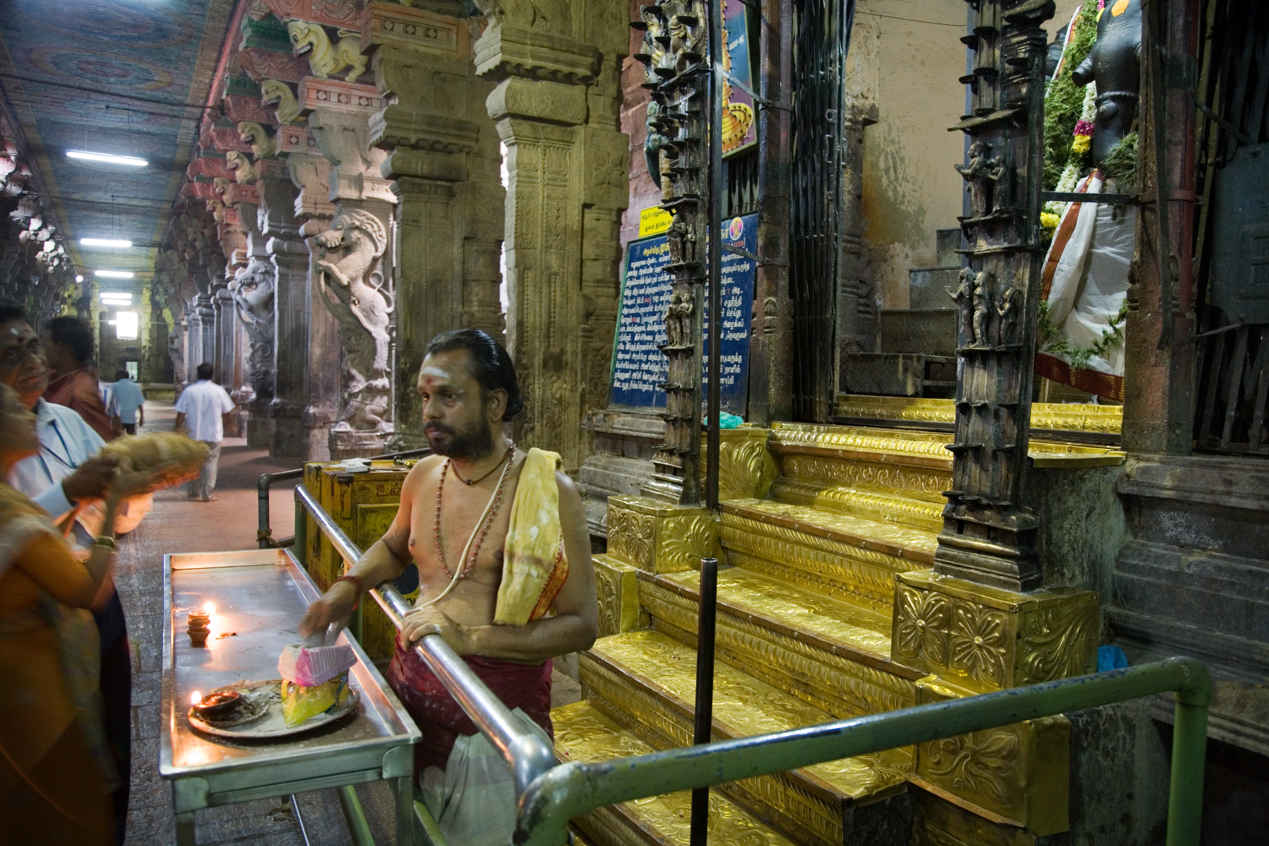 Madurai temple, India